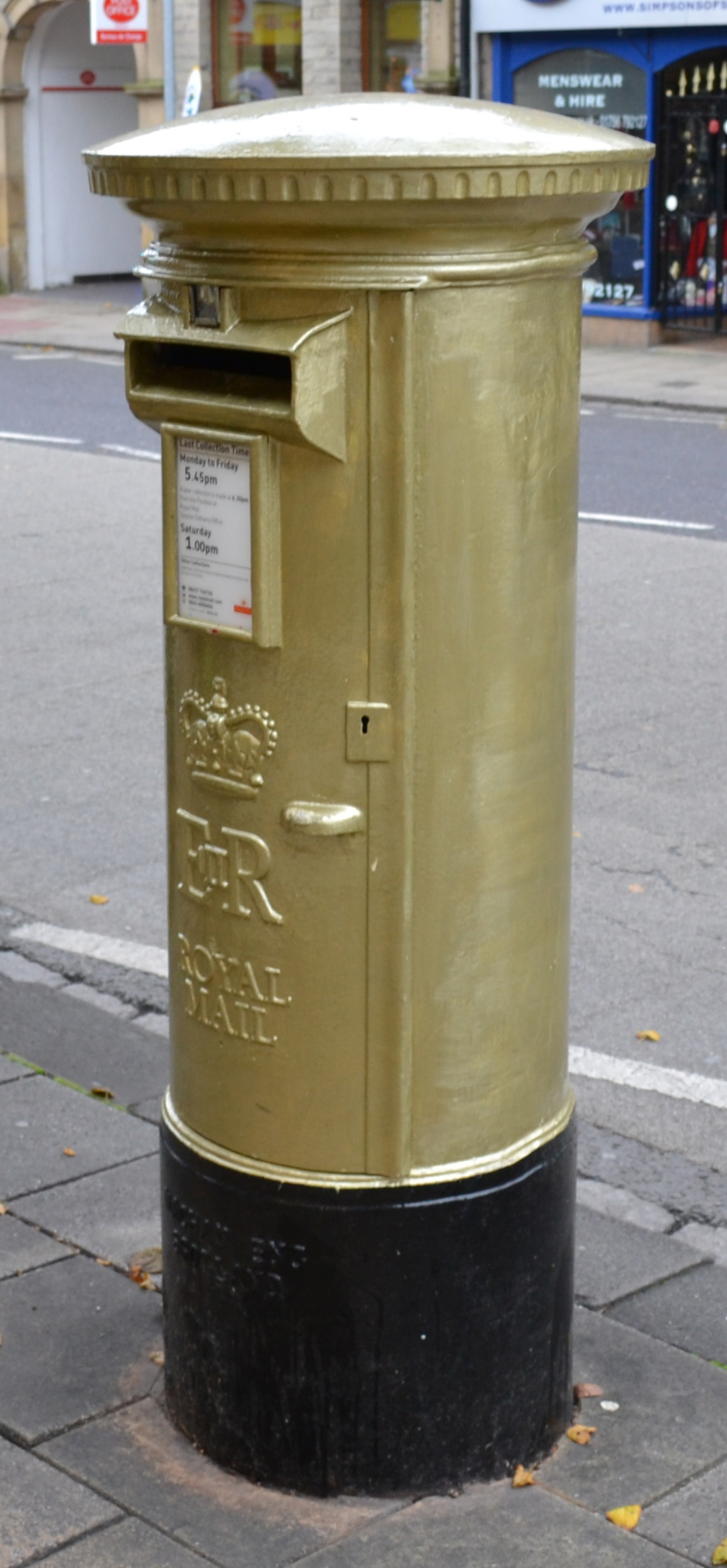 Swadford Street, Skipton